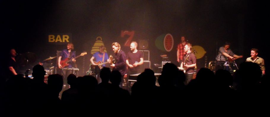 Jaga Jazzist at Kampnagel, Hamburg ("One Armed Bandit TOUR 2011") [1]